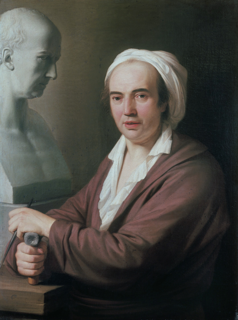 Christopher Hewetson (1739-1798) oil on canvas 98,5 x 73,5 cm circa 1784